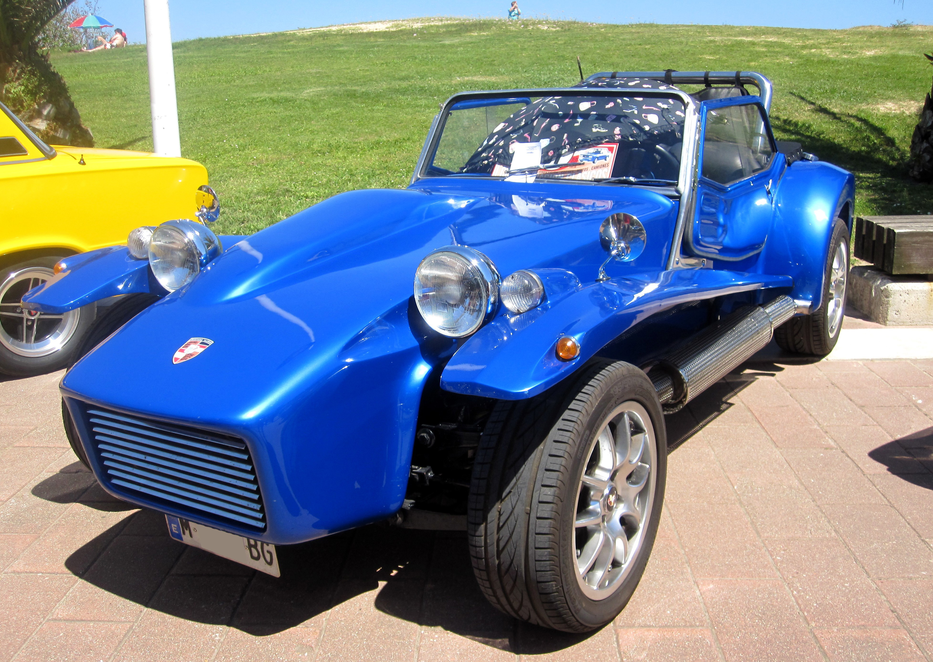 At last! Been wanting to see one fo these ever since I saw one in a Spanish film. I was happy to finally see one in person, the Mallorca was a Lotus Seven based replica made between 1971 and 1976. Something I didn't know is that this brand also built replicas of other cars like the Castilla (Lotus Europa), Vizcaya (Porsche 914 and not 944 like English wIkipedia claims) and Valencia (a Mallorca with a 1300 cc Ford Fiesta engine). Apparently, it also made replicas of the BMW 328. This one had 1976 plates of Madrid, which means it would be one of the latests models, was seen in Suances (Cantabria).